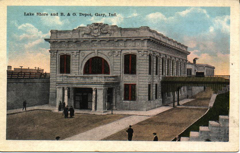 Lake Shore and B. and O. Depot, Gary, Indiana. 1910 color postcard.